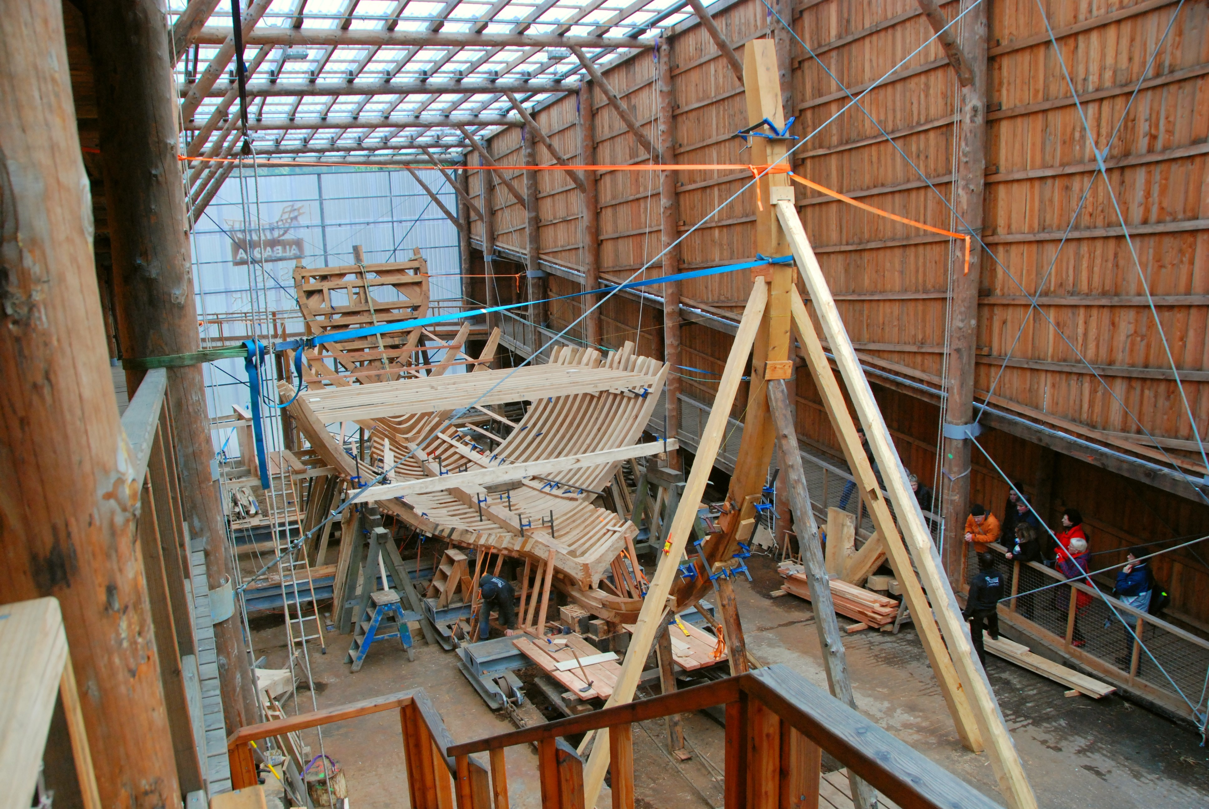 Building the structure of the San Juan whaling ship in the Factoria Albaola.